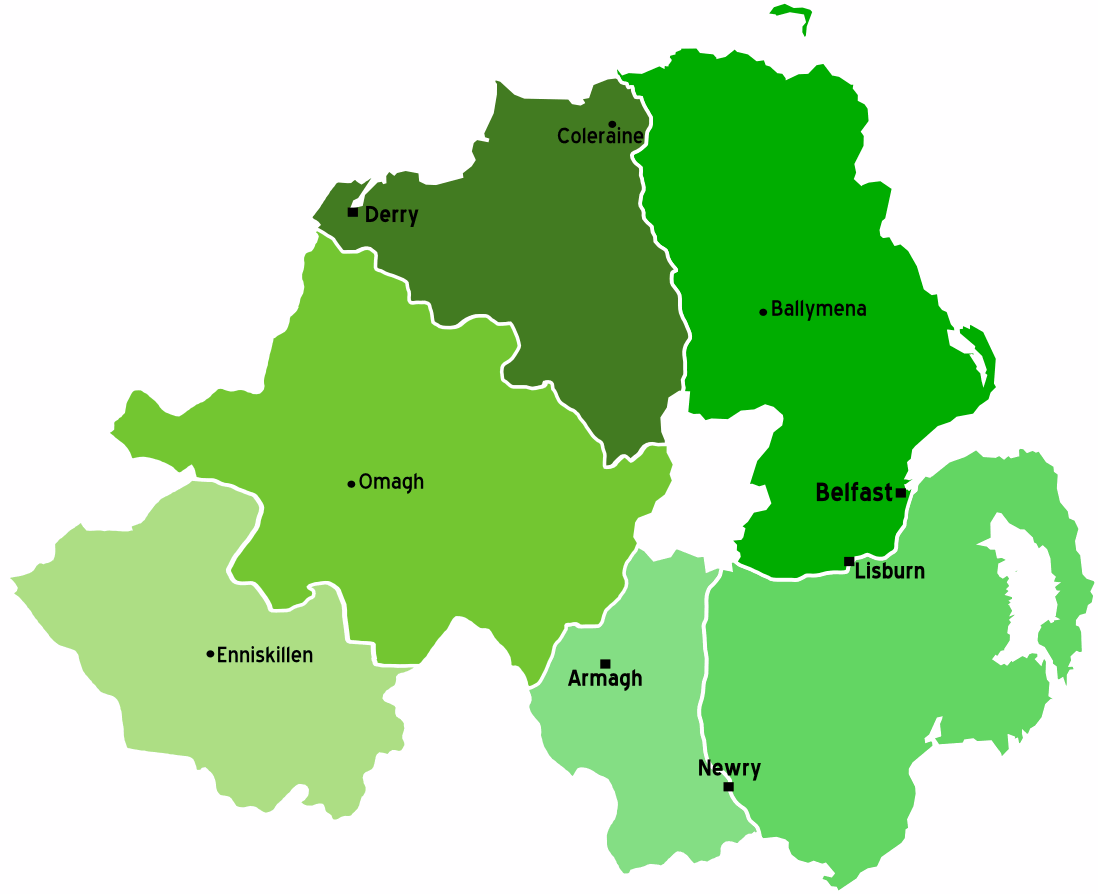 Map of Northern Ireland, showing counties and major cities. Source: :Image:UK map.png map: Northern Ireland Map of: Northern Ireland